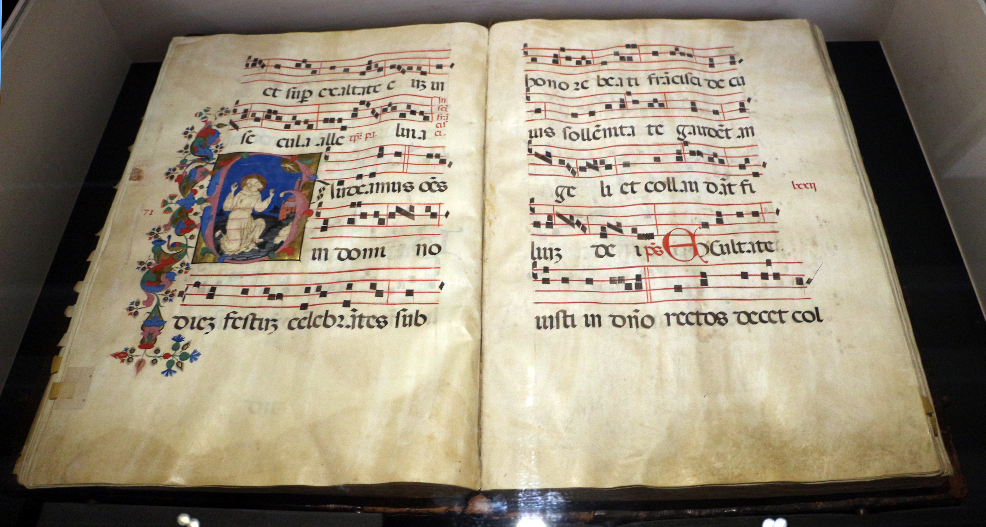 Books about Francis of Assisi